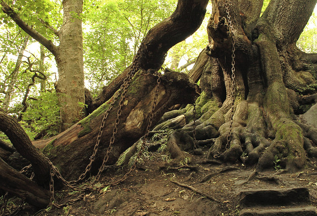 Chained Oak I don't know how the chain came to be there but the tree's girth is huge and its obviously very old indeed.